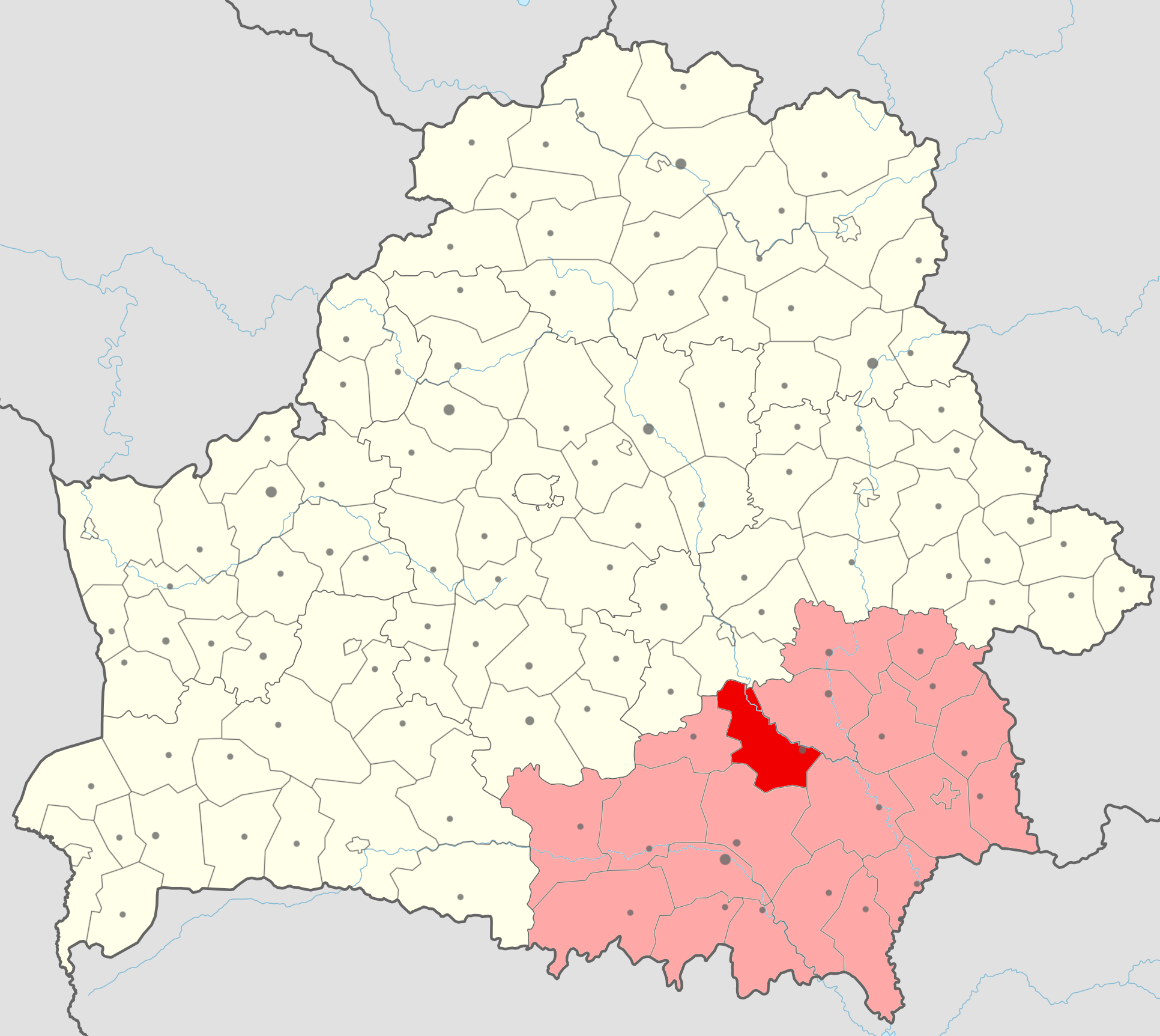 Location of Svietlahorski rajon (red) in Homieĺskaja voblasć (light red) in Belarus.